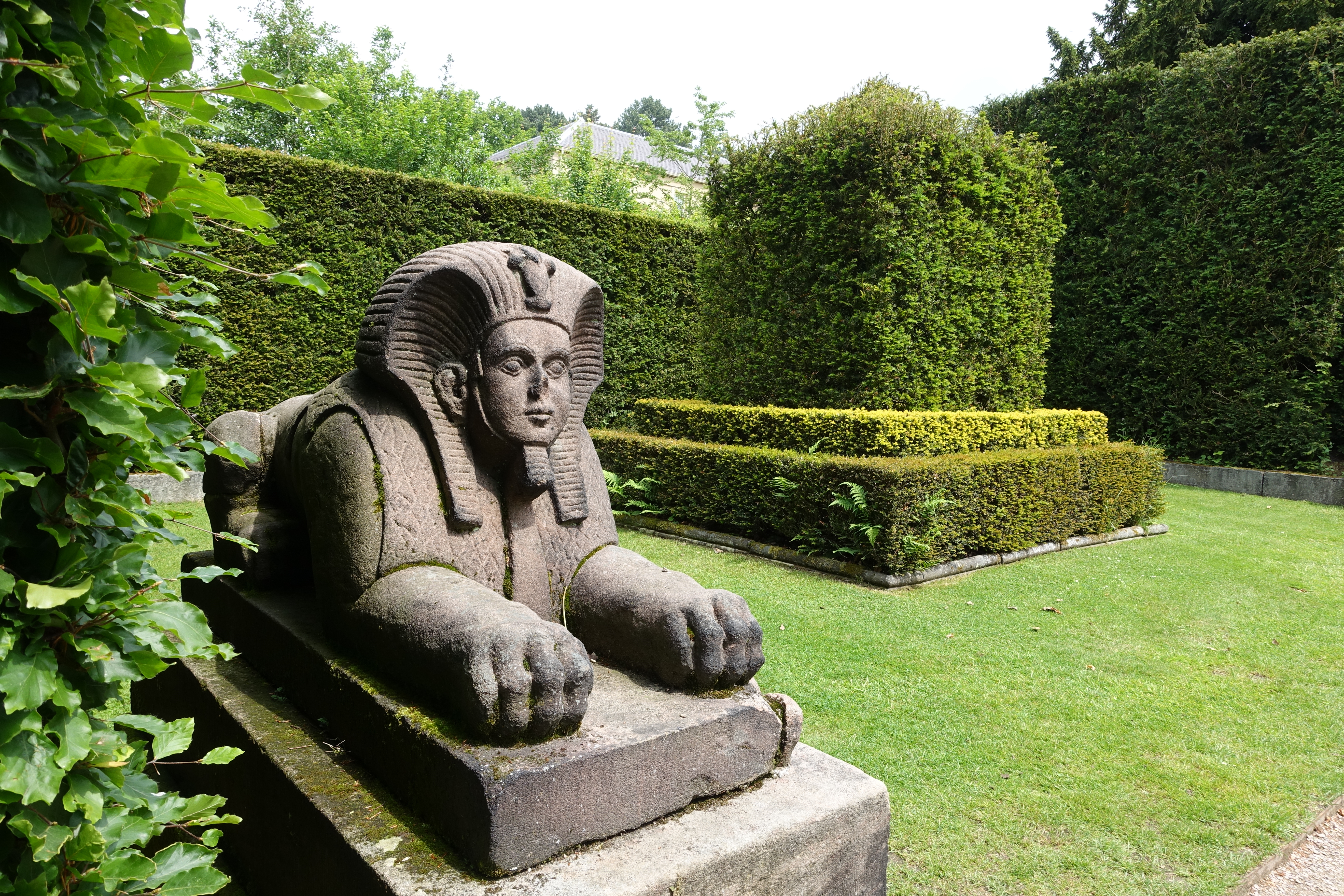 Biddulph Grange Garden - Staffordshire, England.